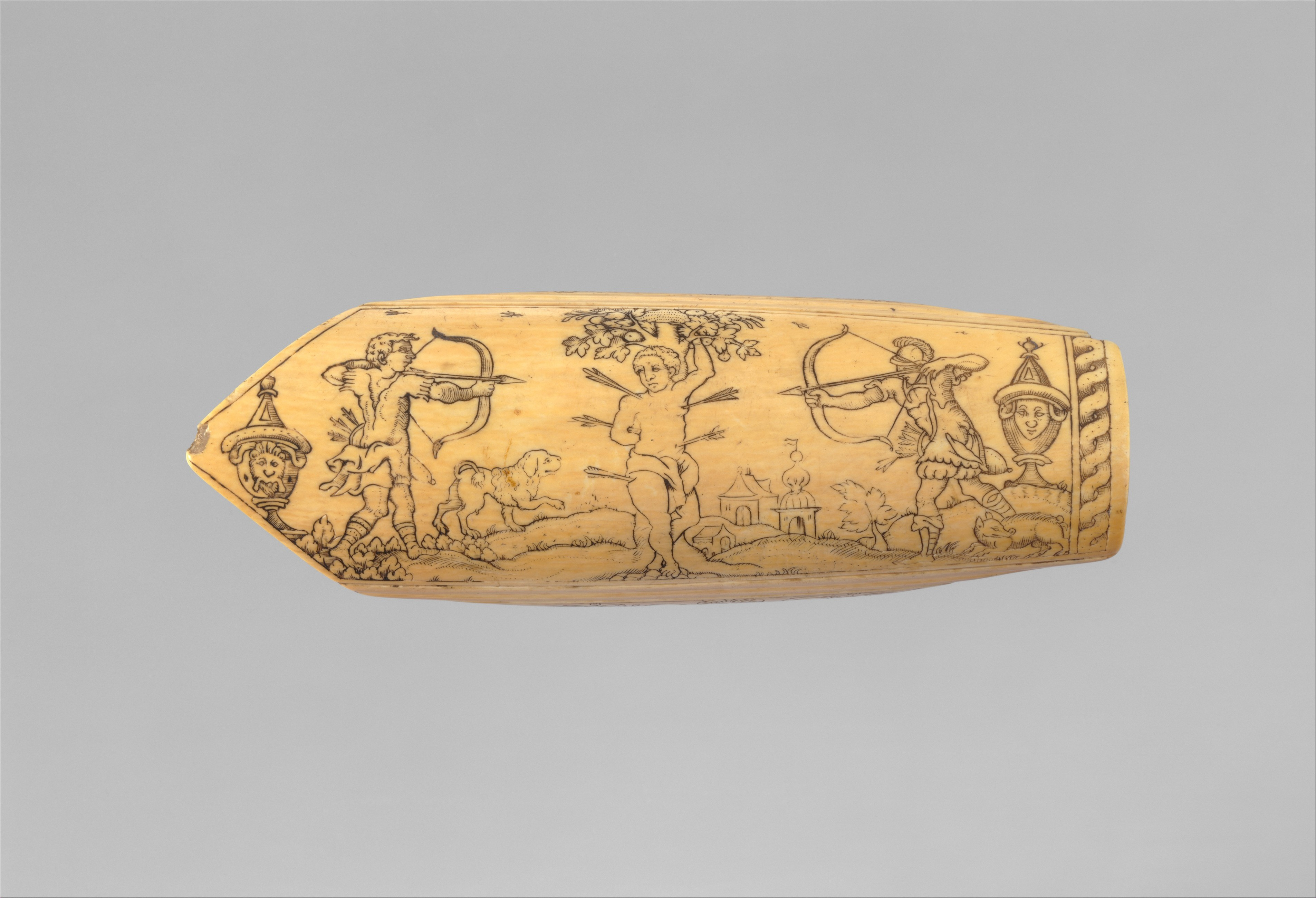 Dutch; Bracer (archer's arm guard); Archery Equipment